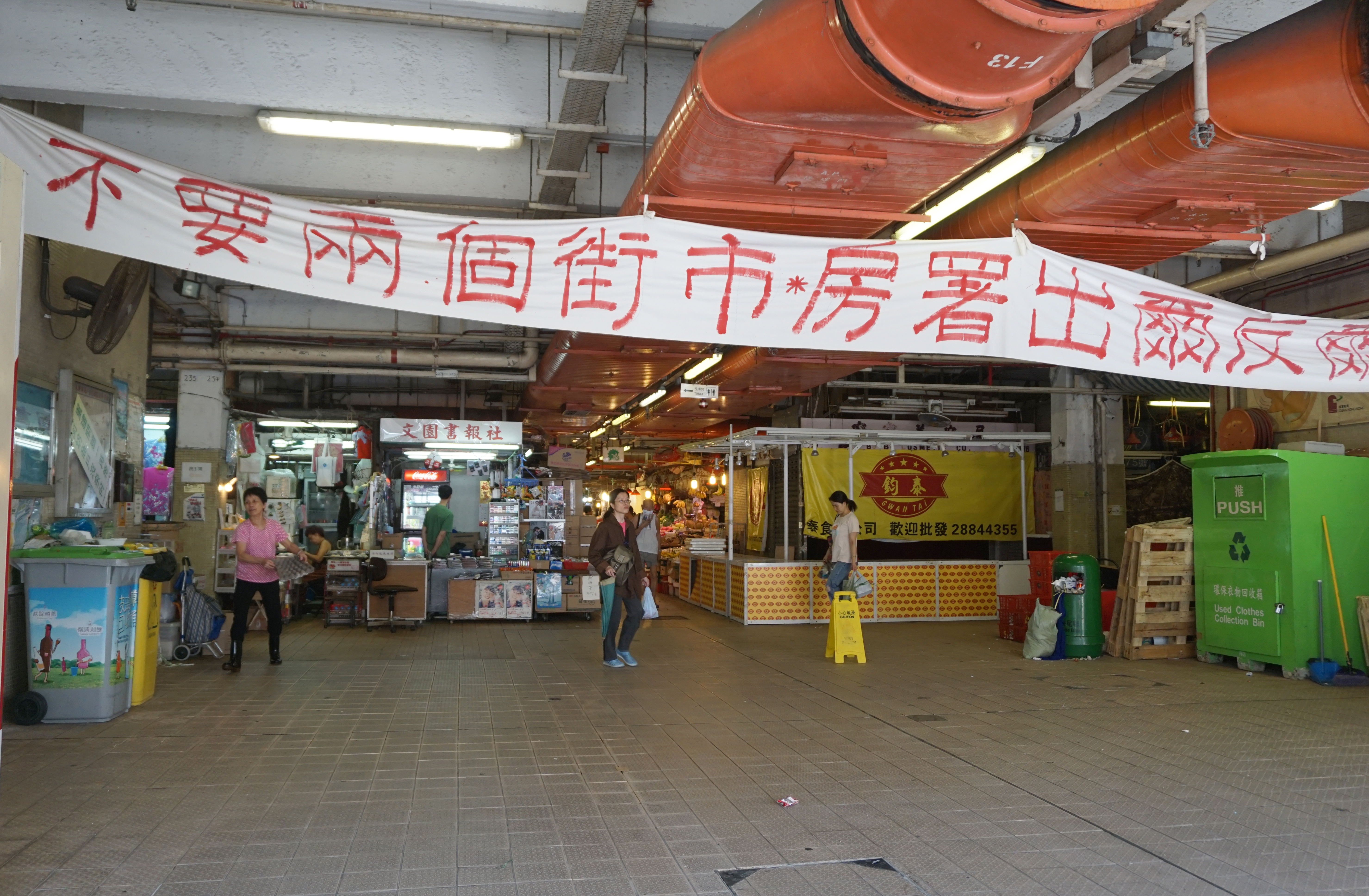 Market in Shek Kip Mei, Hong Kong.